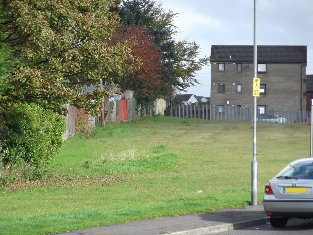 Airdrie on line of former Ballochney Railway Thrushbush branch looking up incline facing NE at 275601,666657